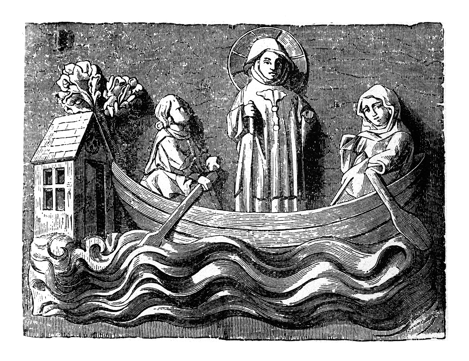 Saint Julien ferrying Jesus over the water. Wellcome Images